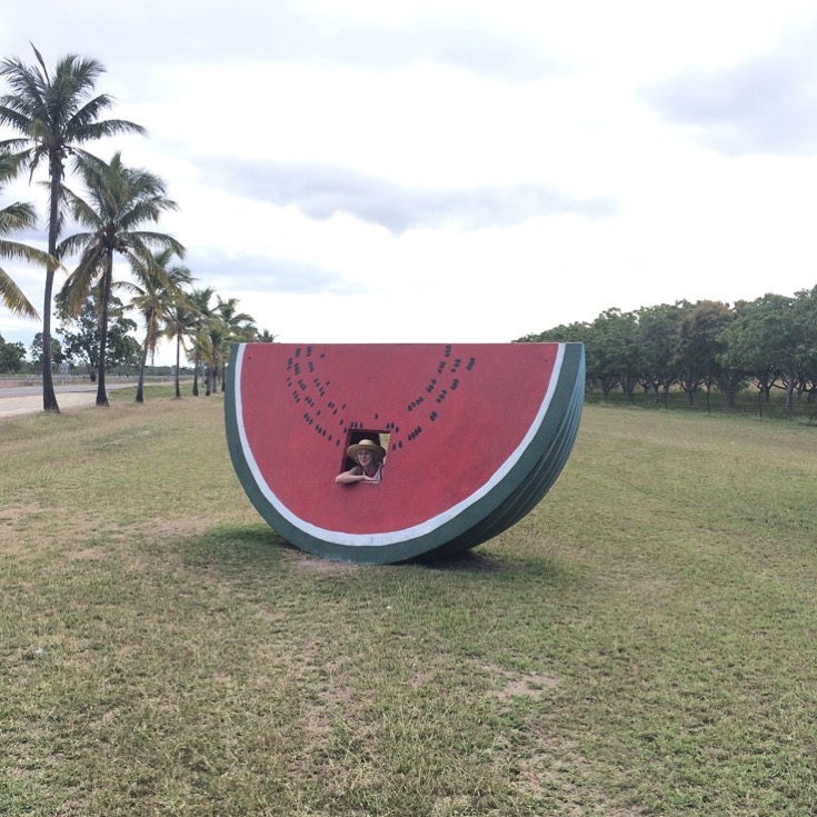 The Big Watermelon is situated outside the same fruit and vegetable roadside store at Gumlu as the Big Pumpkin.